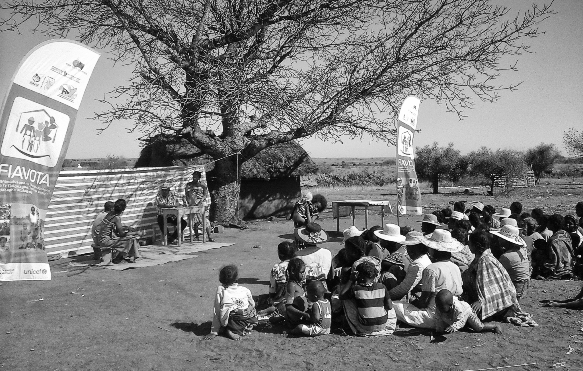 This is an image with the theme "Play" from: Madagascar